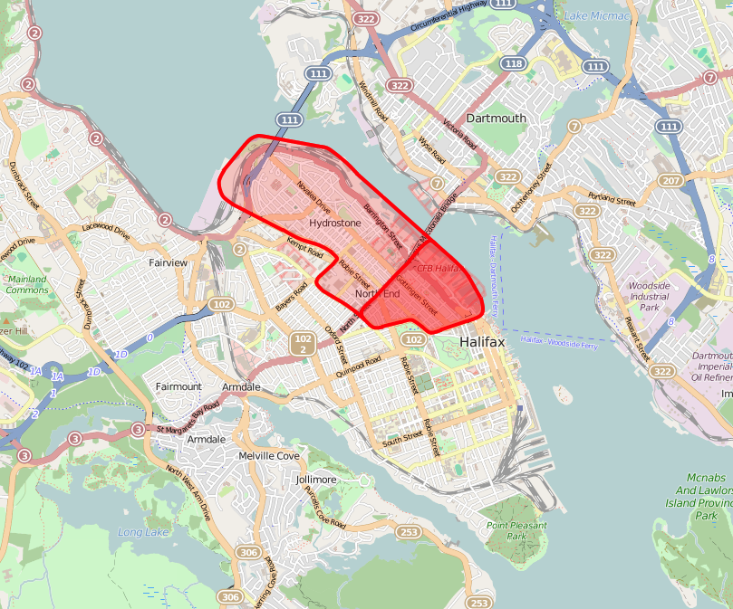 Boundary of the North End, Halifax. The darker shaded area represents the traditional area of the North End -- the old suburbs north of downtown. The entire highlighted area represents a modern broad definition. This boundary was identified by Halifax councillor Waye Mason in his Neighbourhood Map Project here.